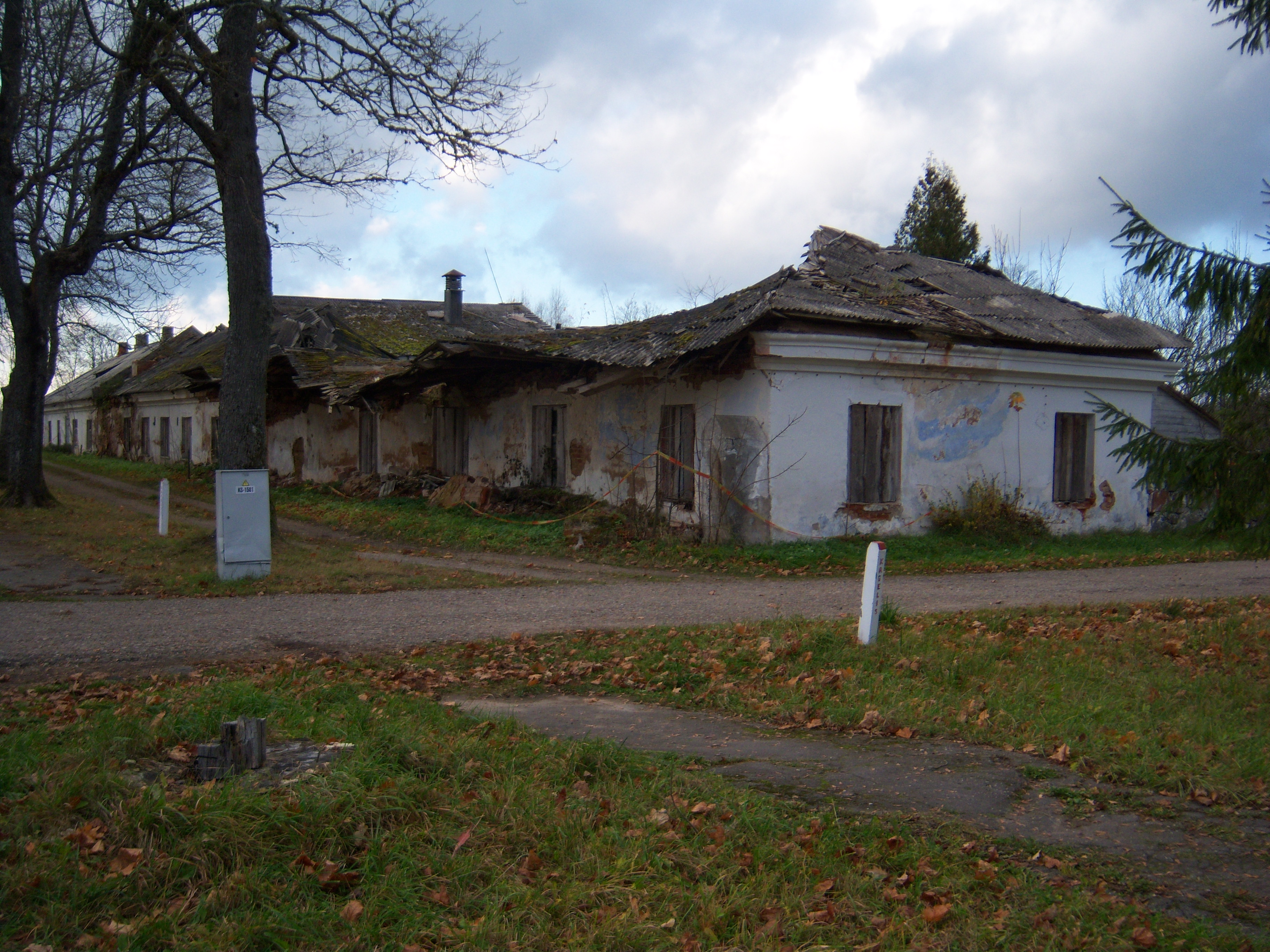 Former monastery, Surdegis, Anykščiai District, Lithuania